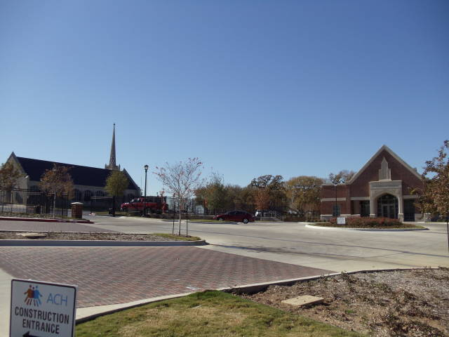 Masonic Widows and Orphans Home Histroic District